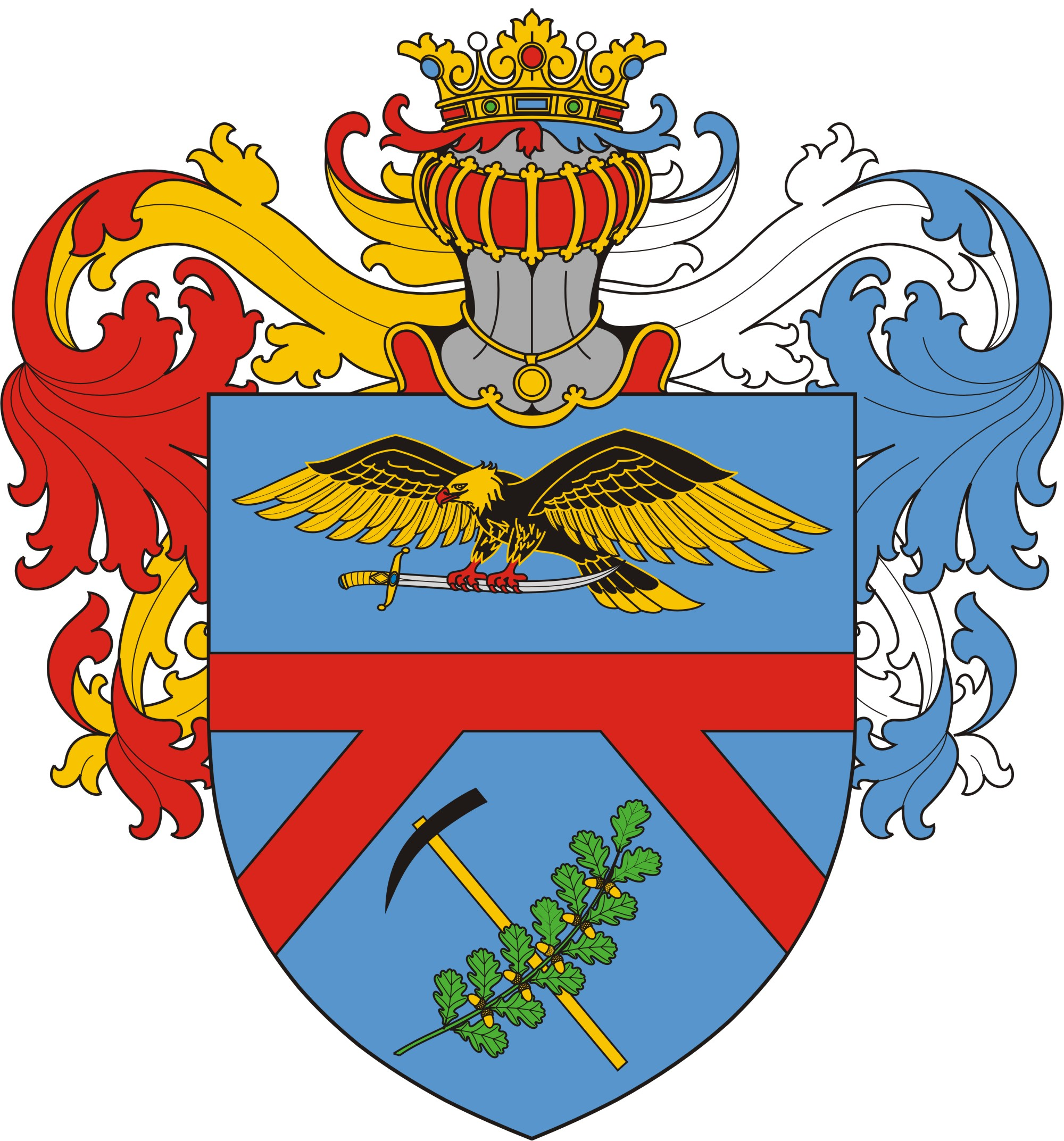 Coat of arms of Eplény, Hungary